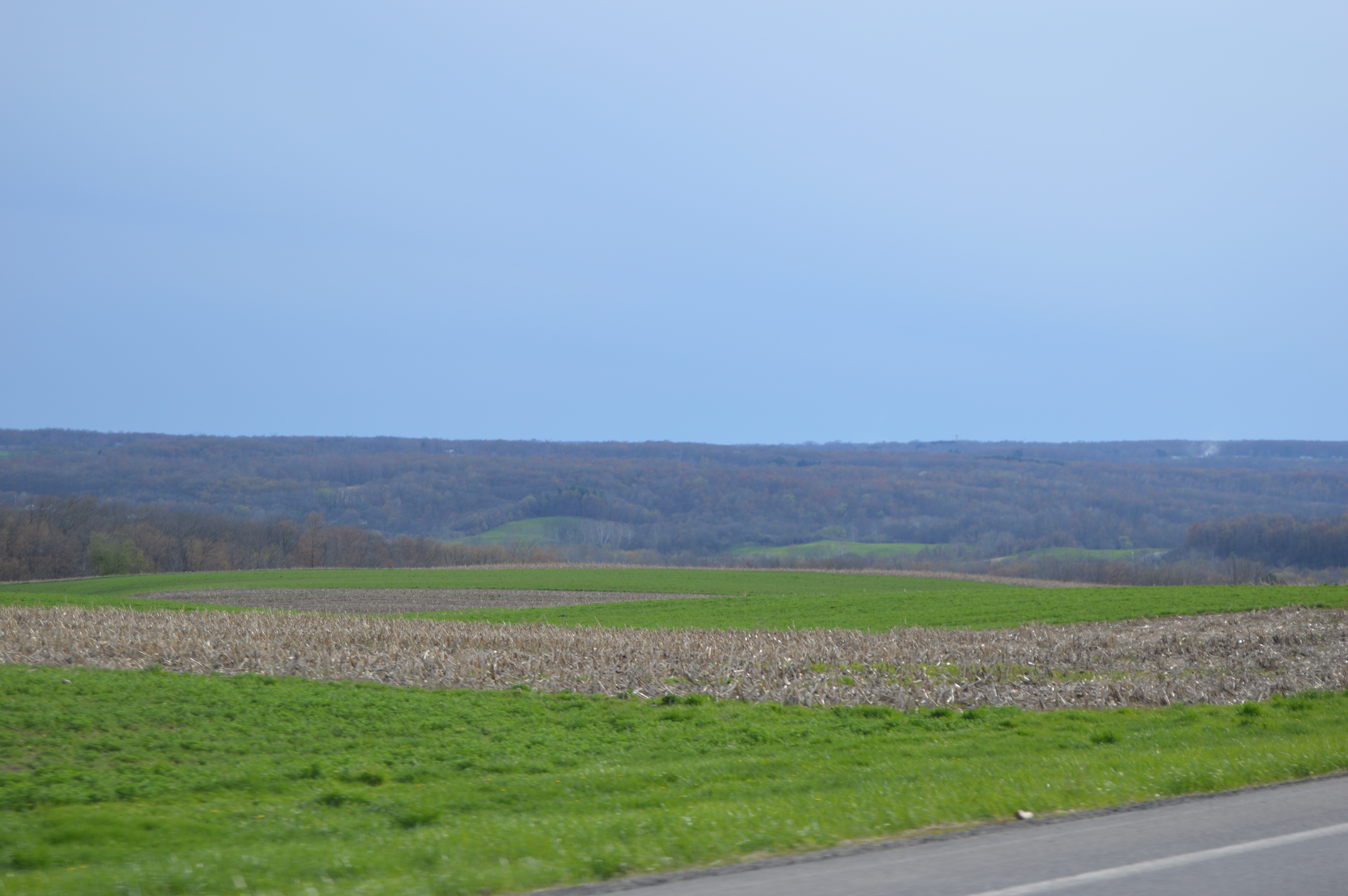 Rolling hills seen looking southwest from Pennsylvania Route 208 west of New Wilmington in Pulaski Township, Lawrence County, Pennsylvania, United States.